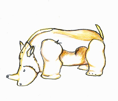 a gold rhino from the burial of Mapungubwe,R of South Africa